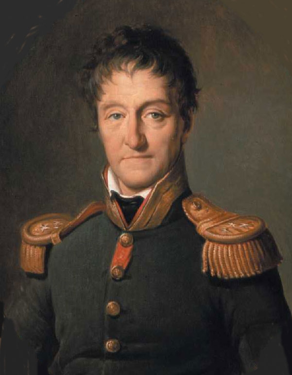 Portrait of the French politician, engineer, and mathematician.